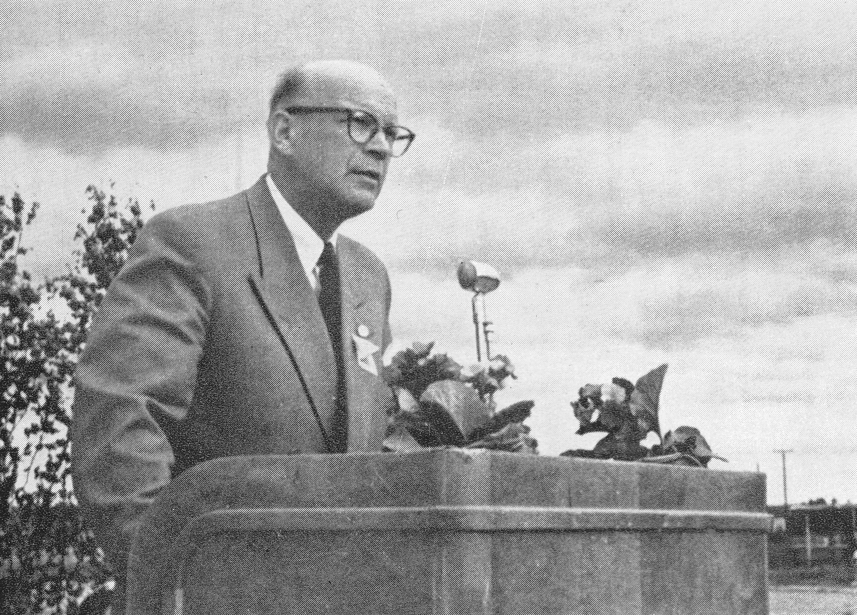 Urho Kekkonen in Kuusamo year 1955